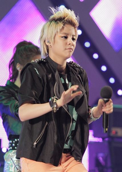 Amber Liu at the Music Show in Seoul Plaza on July 4, 2011.